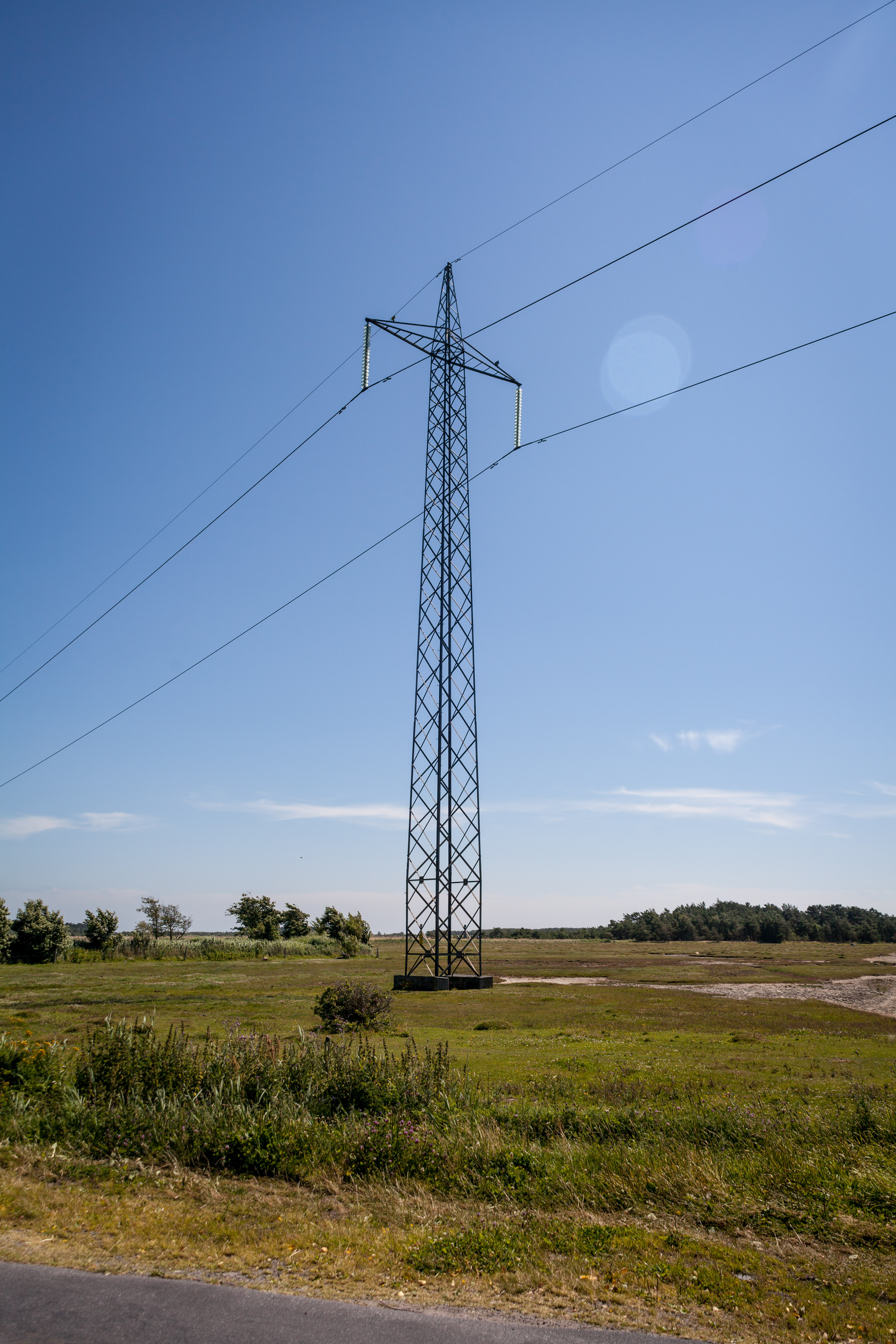 Konti-Skan suspension pylon on Læsø (island), Denmark